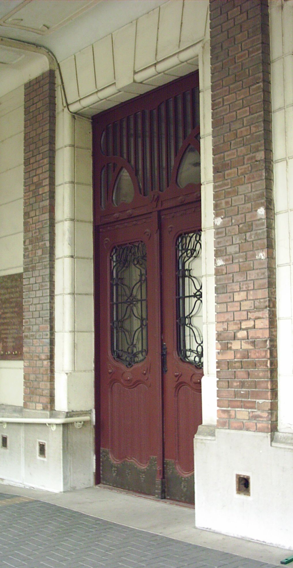 Entrance door of the Town Hall of Kiskunfélegyháza.